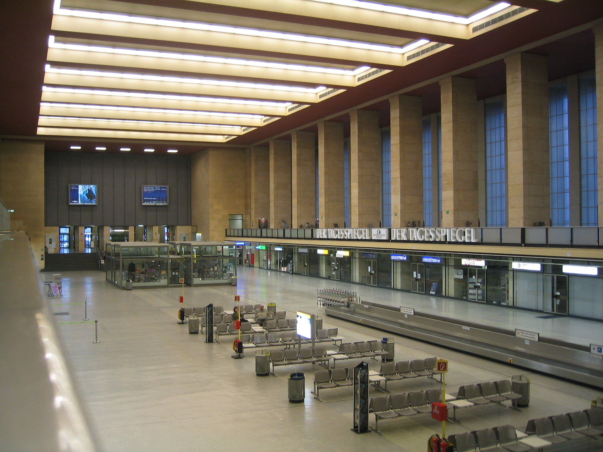 main hall of Tempelhof International Airport